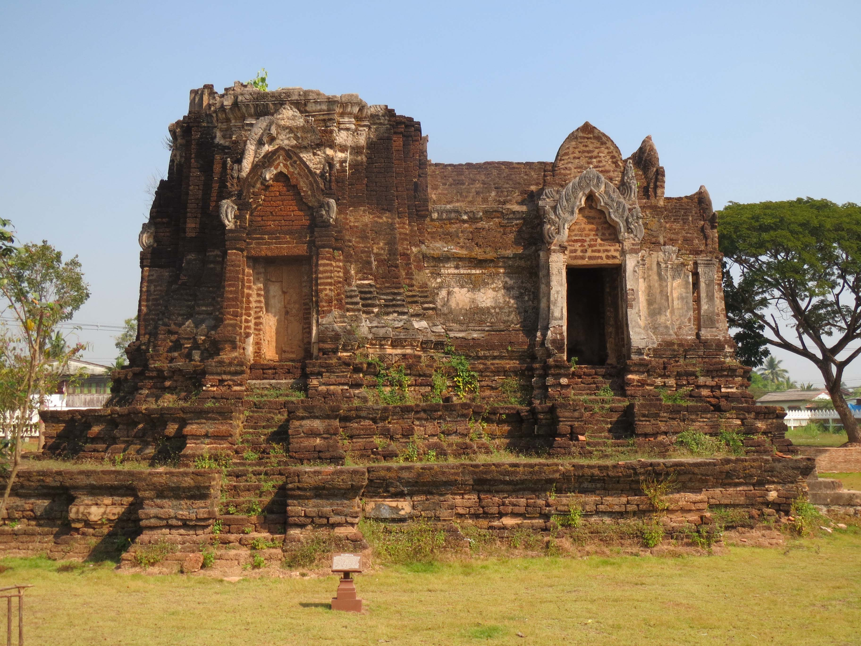 Photo by Chris Baker, 2012